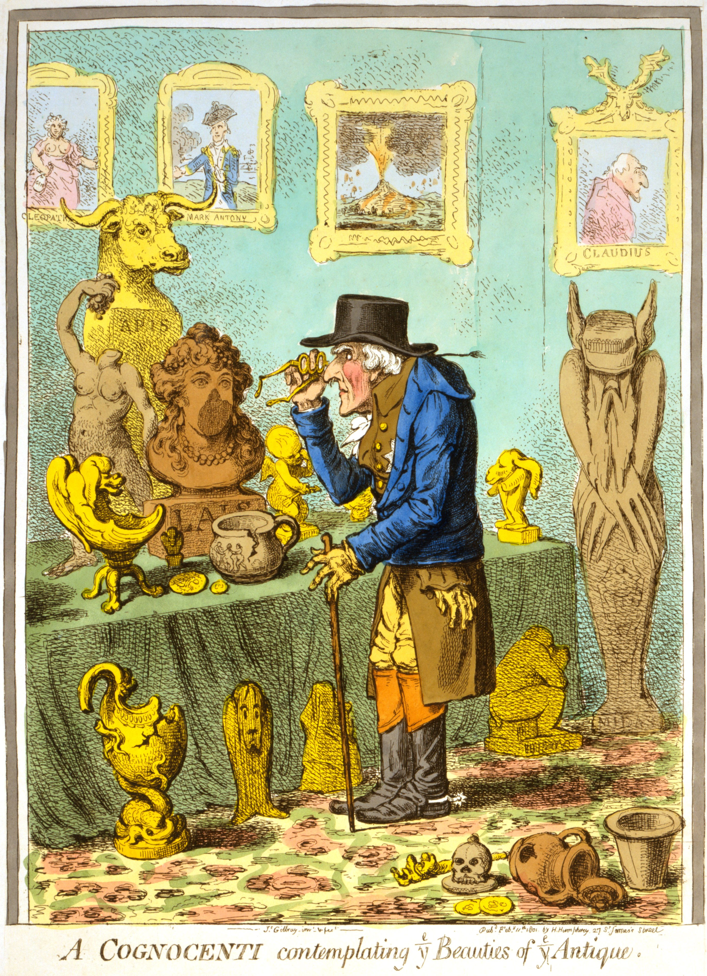 A Cognocenti contemplating ye Beauties of ye Antique Js. Gillray—invt—& fect. SUMMARY: An elderly Sir William Hamilton inspecting his antiquities, all of which refer to his wife, Lady Emma Hamilton and her lover, Lord Horatio Nelson. In the background hang four pictures on the wall: "Cleopatra", a picture of Lady Hamilton with her breasts exposed, holding a gin bottle; "Mark Anthony", Lord Nelson with a sea battle in background: an erupting volcano; and a portrait of Hamilton, facing away from the other paintings. MEDIUM: 1 print : etching, hand-colored. CREATED/PUBLISHED: [London] : H. Humphrey, 1801 Feby 11th. According to Wright & Evans, Historical and Descriptive Account of the Caricatures of James Gillray (1851, OCLC 59510372), p. 462, "A portrait of the celebrated antiquary and diplomatist, whose lady figures in the preceding print. It is not difficult to guess the allusions in many of the articles he is contemplating. Lady Hamilton as Cleopatra,* and Nelson as Mark Antony, with himself in the character of Claudius—he was a great lover of the table—are the pictures which adorn the walls. *She is represented in the character of Cleopatra in Boydell's Plates to Shakespeare."